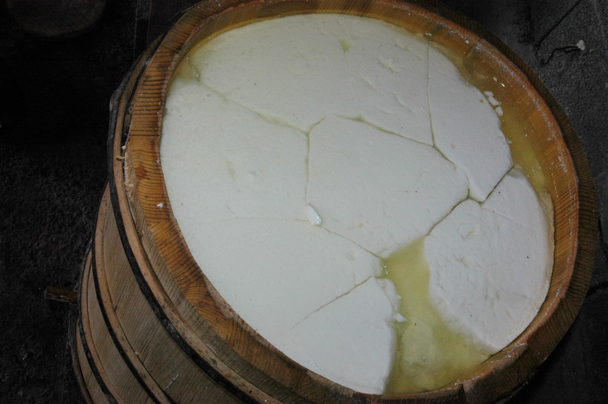 Project "Dicovering Pester" (Projekat "Otkrivanje Peštera"). Sunny winter landscape on the Pester plateau, in Serbia, with snow on mountain slopes and fields , villages and streams.